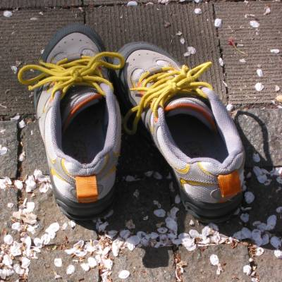 Sportshoes